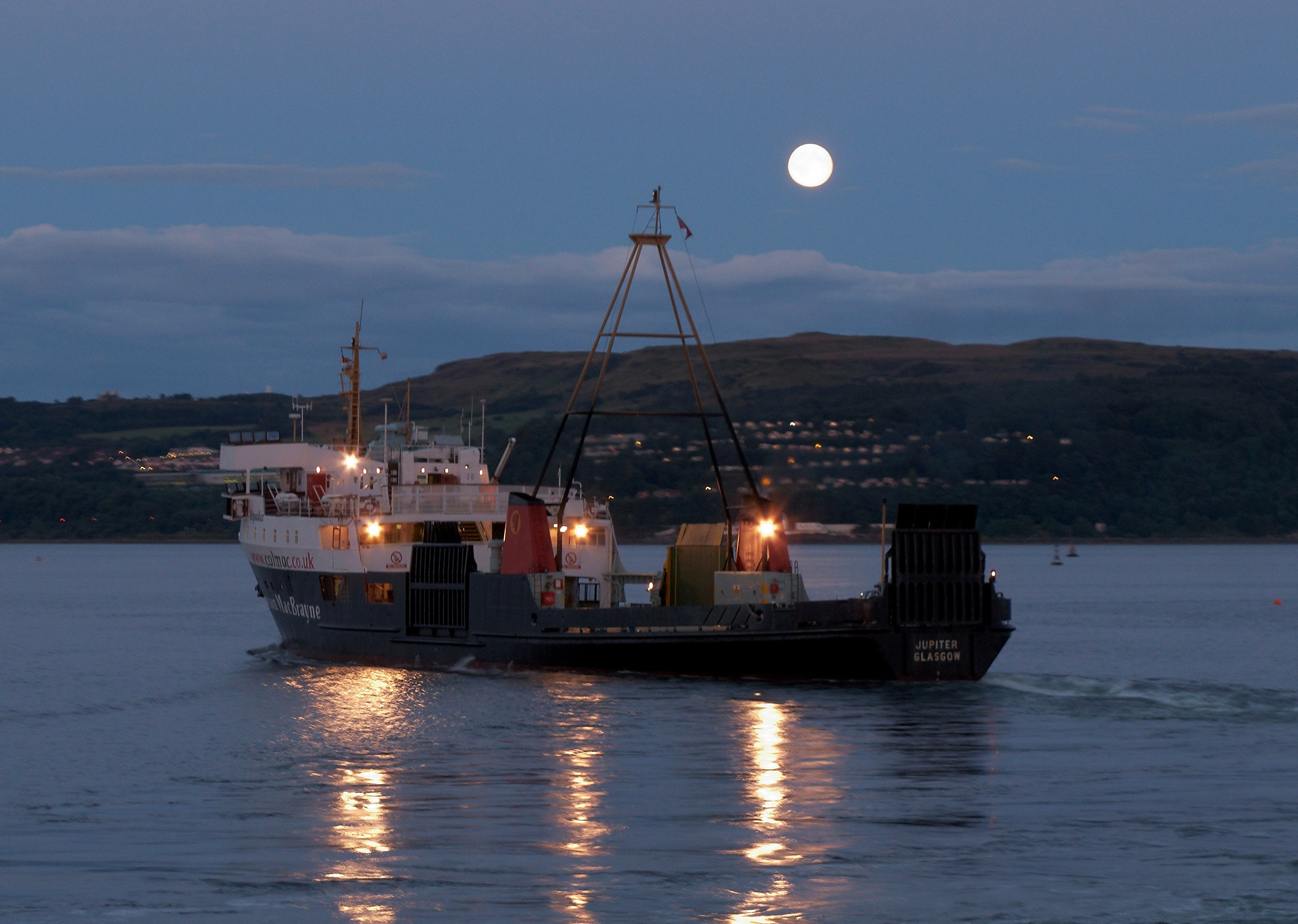 Caledonian MacBrayne's MV Jupiter leaves Dunoon Ferry Terminal with the 20.45 departure to Gourock.